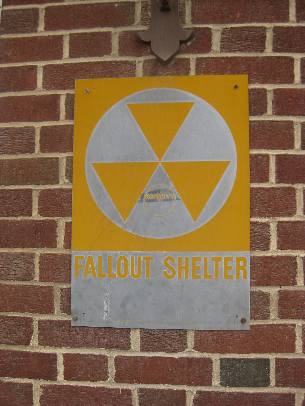 US Post Office-Sunnyside Main, 713 E. Edison Ave. Sunnyside, fallout shelter sign at front entrance.